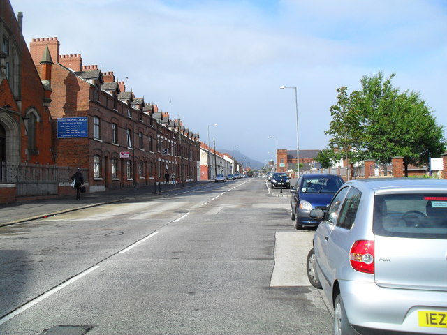 Tennent Street, Belfast This links the Shankill Road and the Crumlin Road. It has only been partially redeveloped - note the original terrace to the right.